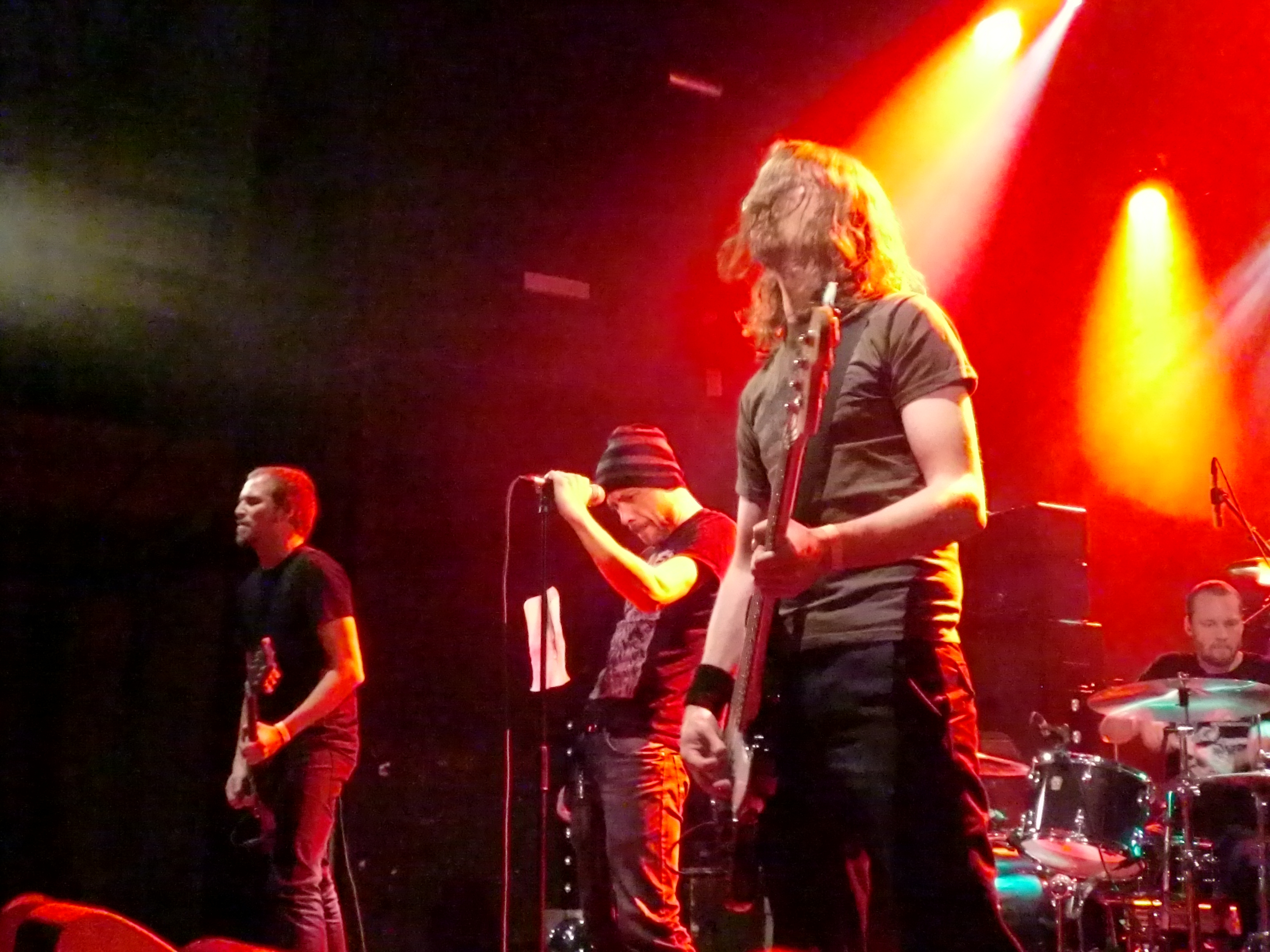 Ghost Brigade supporting Paradise Lost at Tivoli (Oudegracht, Utrecht, Netherlands).